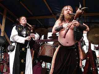 Members of German Mittelalter rock band Schelmish performing live in Horsens, Denmark on 1 January 2002.